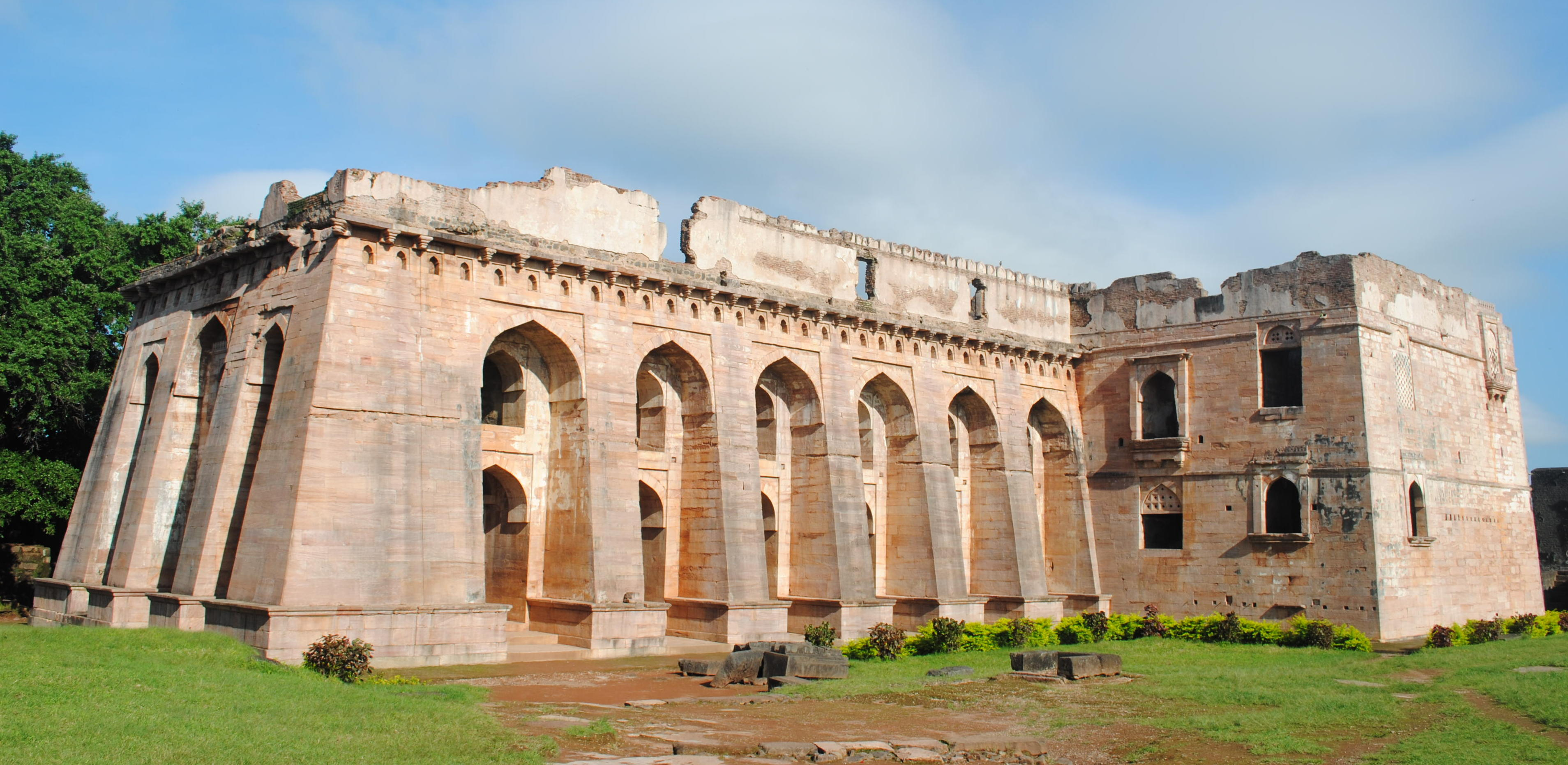 Hindola Mahal literally means a “Swinging Palace” a name given to its peculiar sloping sidewalls. The plan of the building is ‘T’ shaped, with a main hall and a transverse projection at the north. The massive vaulted roof of the hall has disappeared though the row of lofty arches, which once supported it, is still intact. This large audience hall is dated to 15th century AD.